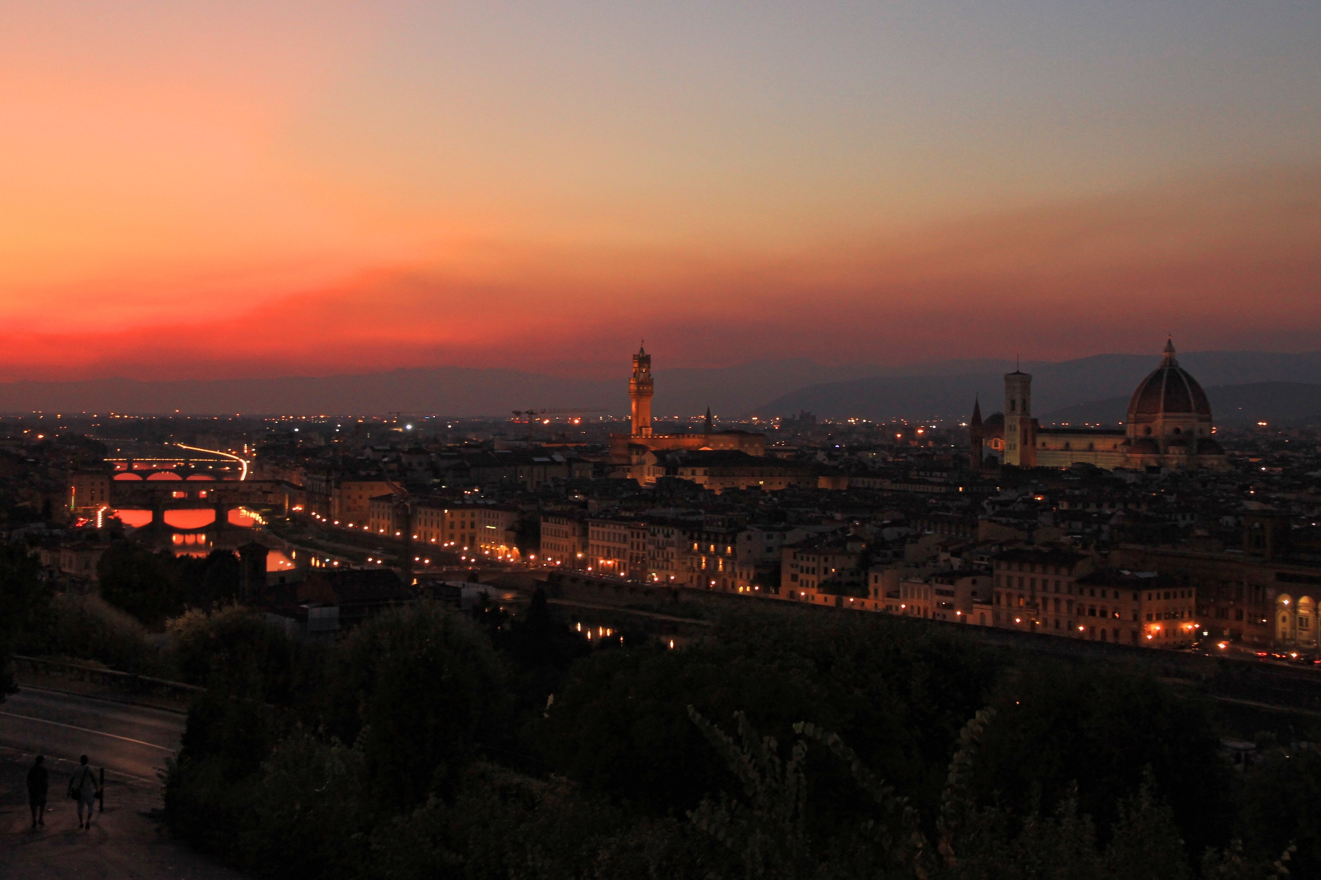 Florence at night seen from the Piazzale Michelangelo